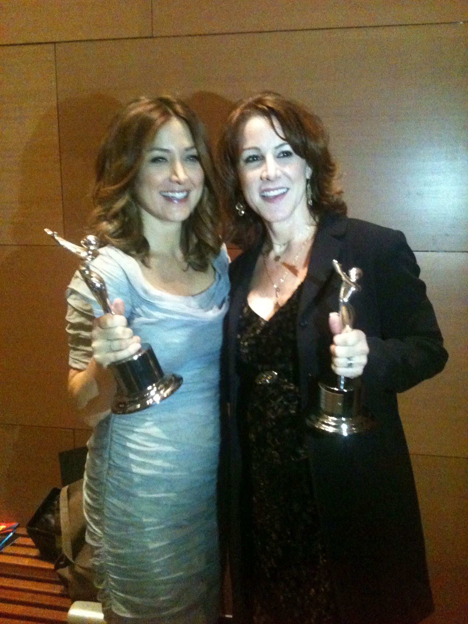 Sasha and Janet celebrate wins